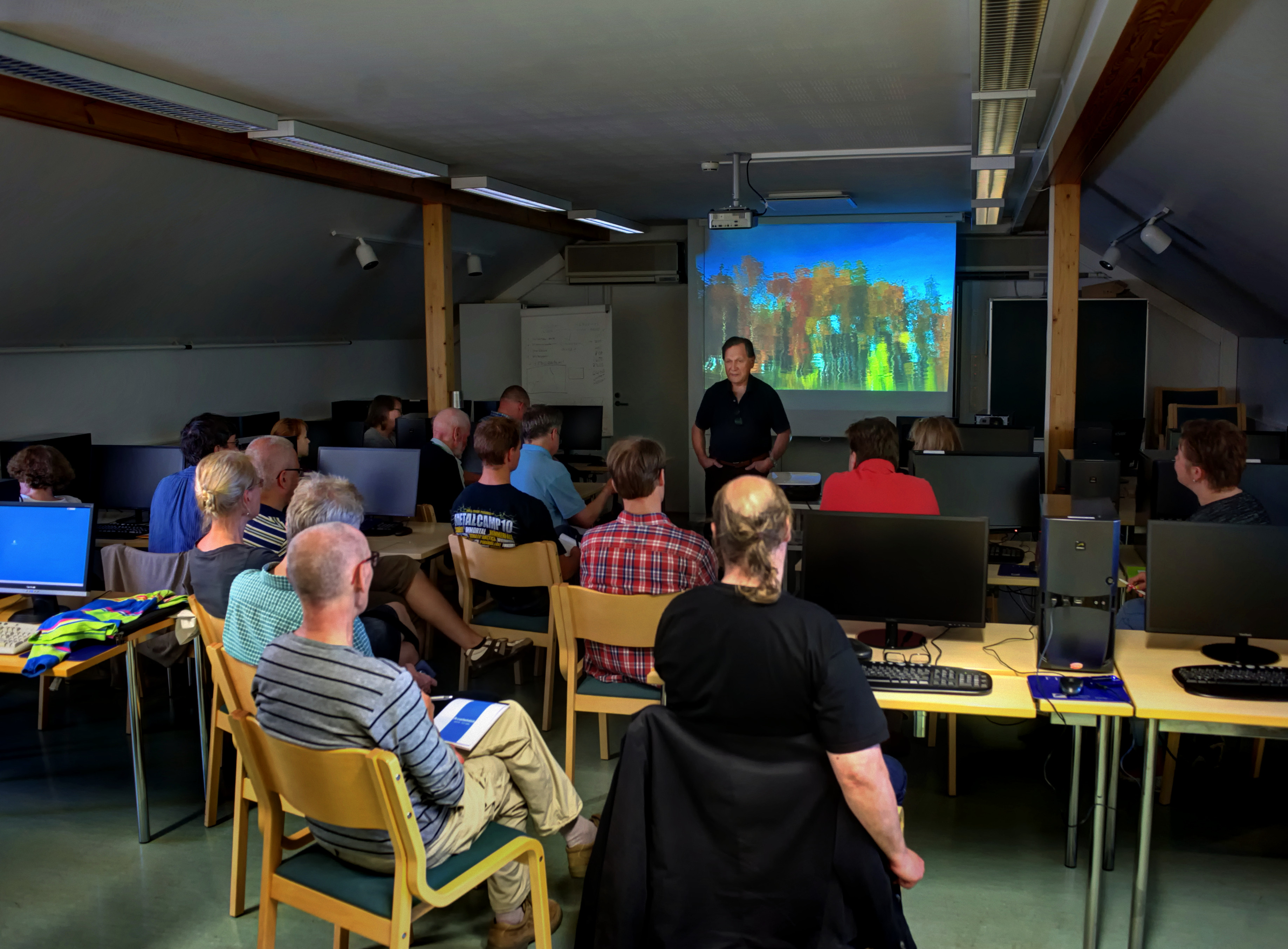 Veijo Kantele in Joutseno 2015